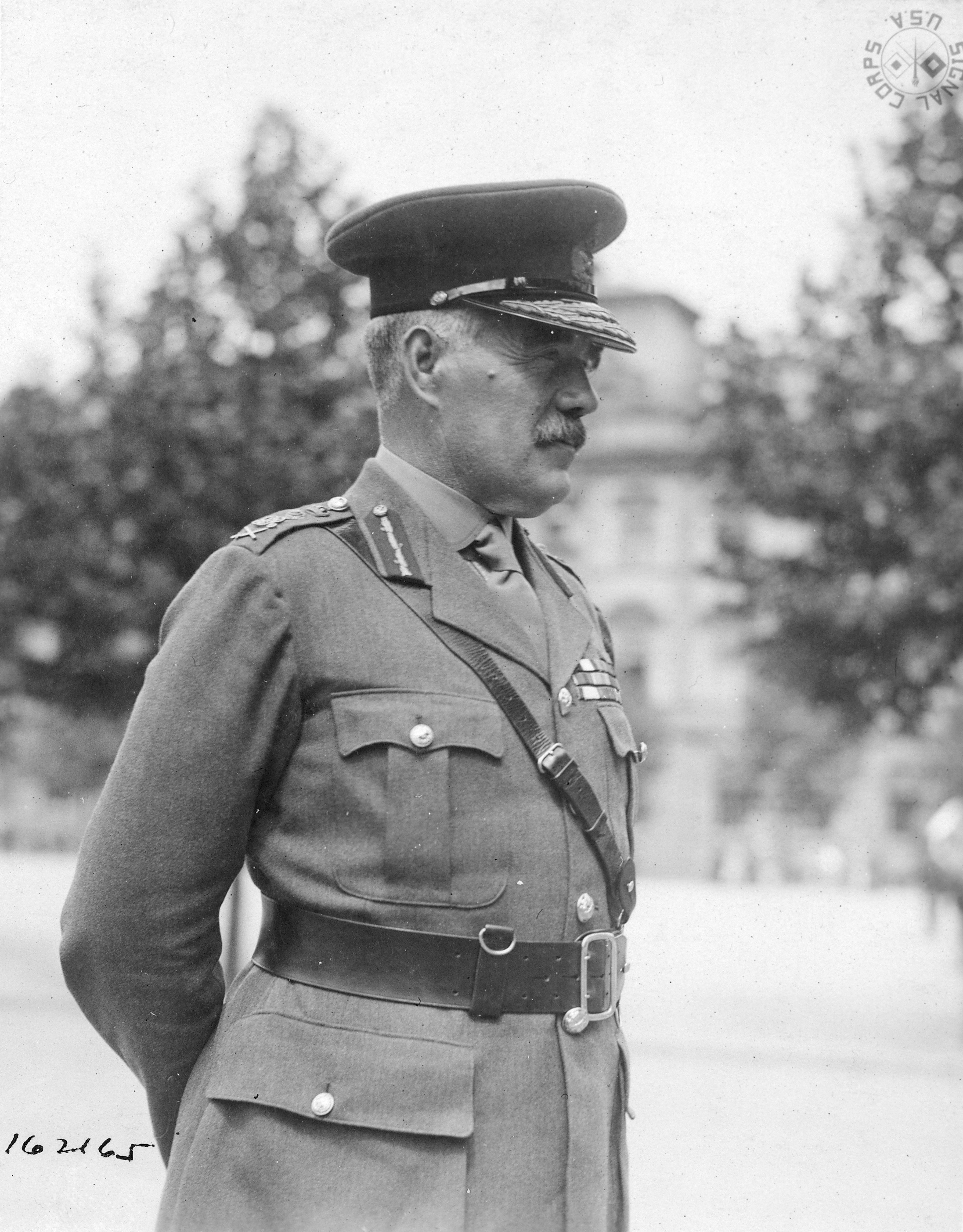 The First World War 1914-1918- Personalities General Sir William Robertson, Chief of the Imperial General Staff 1915-1918.